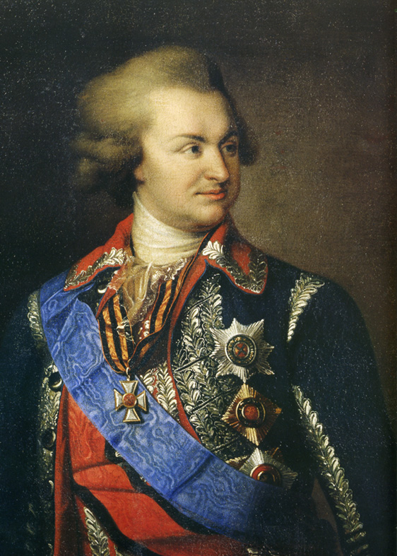 Portrait of russian fieldmarshal Grigory Potemkin (1739-1791)